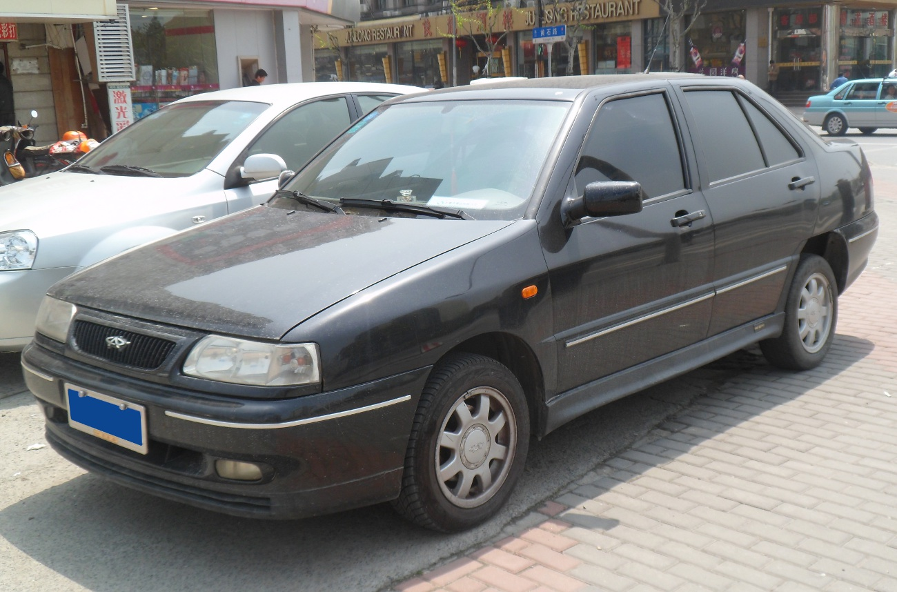 Chery Fulwin photographed in Shanghai, China.